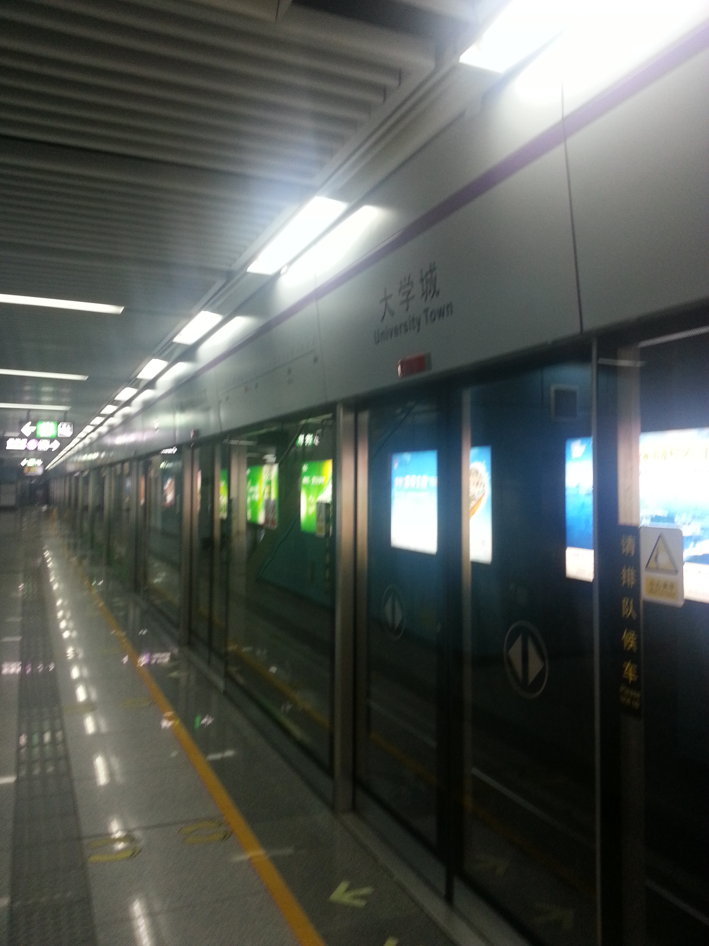 Shenzhen Metro University Town Station platform